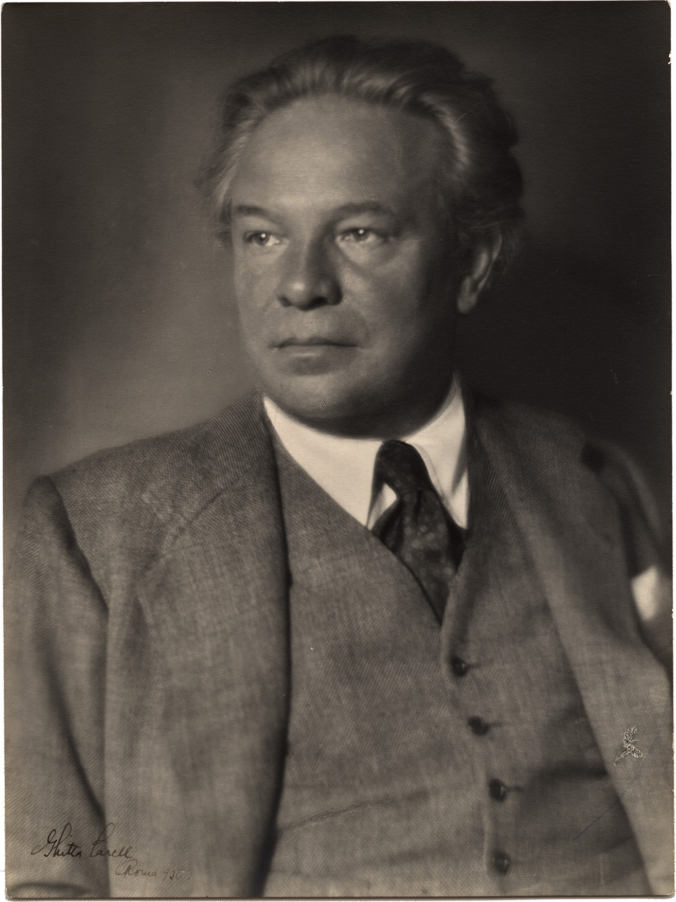 Portrait of Ottorino Respighi, composer (1879-1936). Photo by Ghitta Carell, 1936.